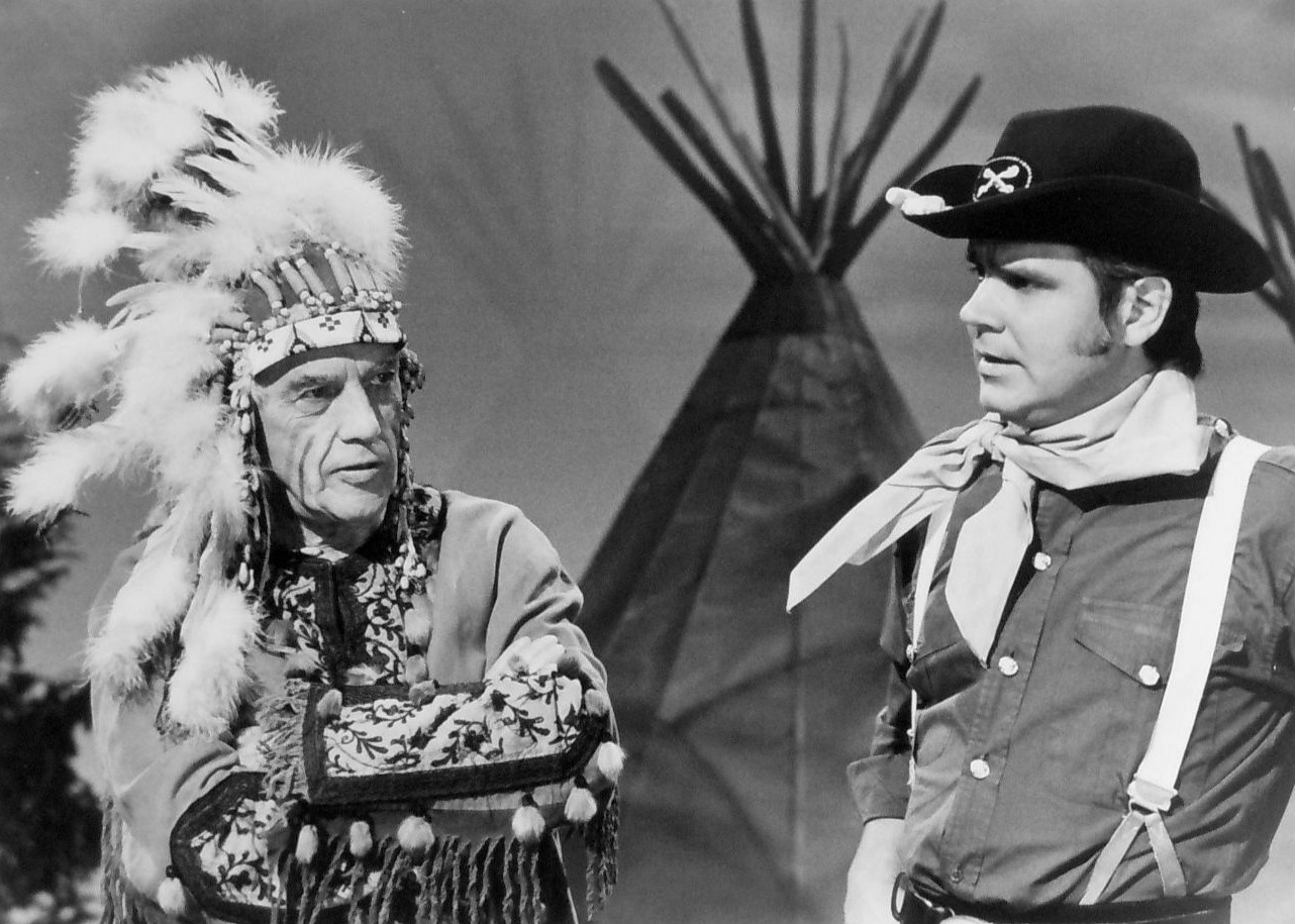 Photo of Ed Sullivan (left) and Rich Little (right) in a skit from the television show ABC Comedy Hour.